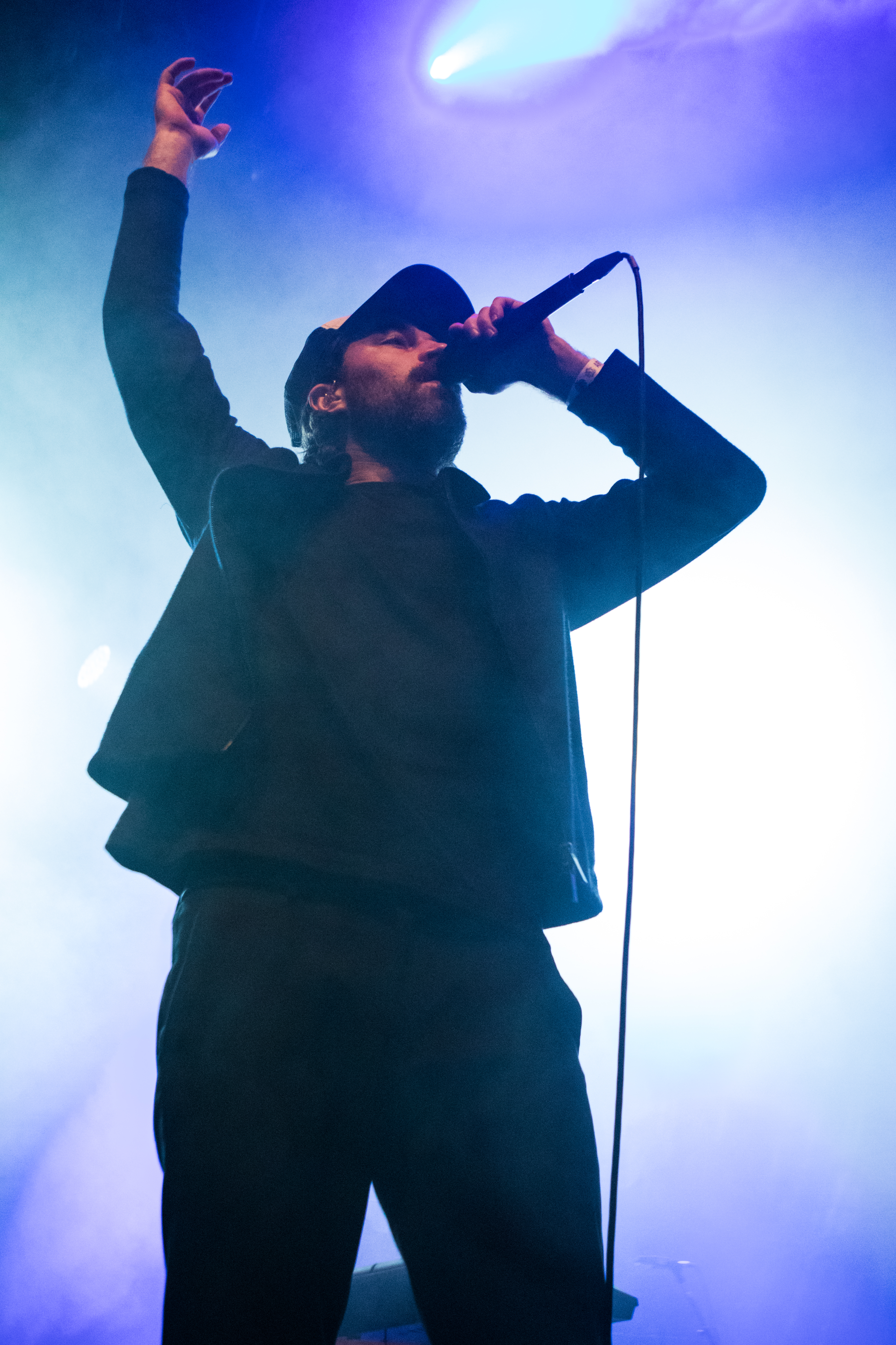 J. Bernardt at Way Back When Festival 2017 in Dortmund